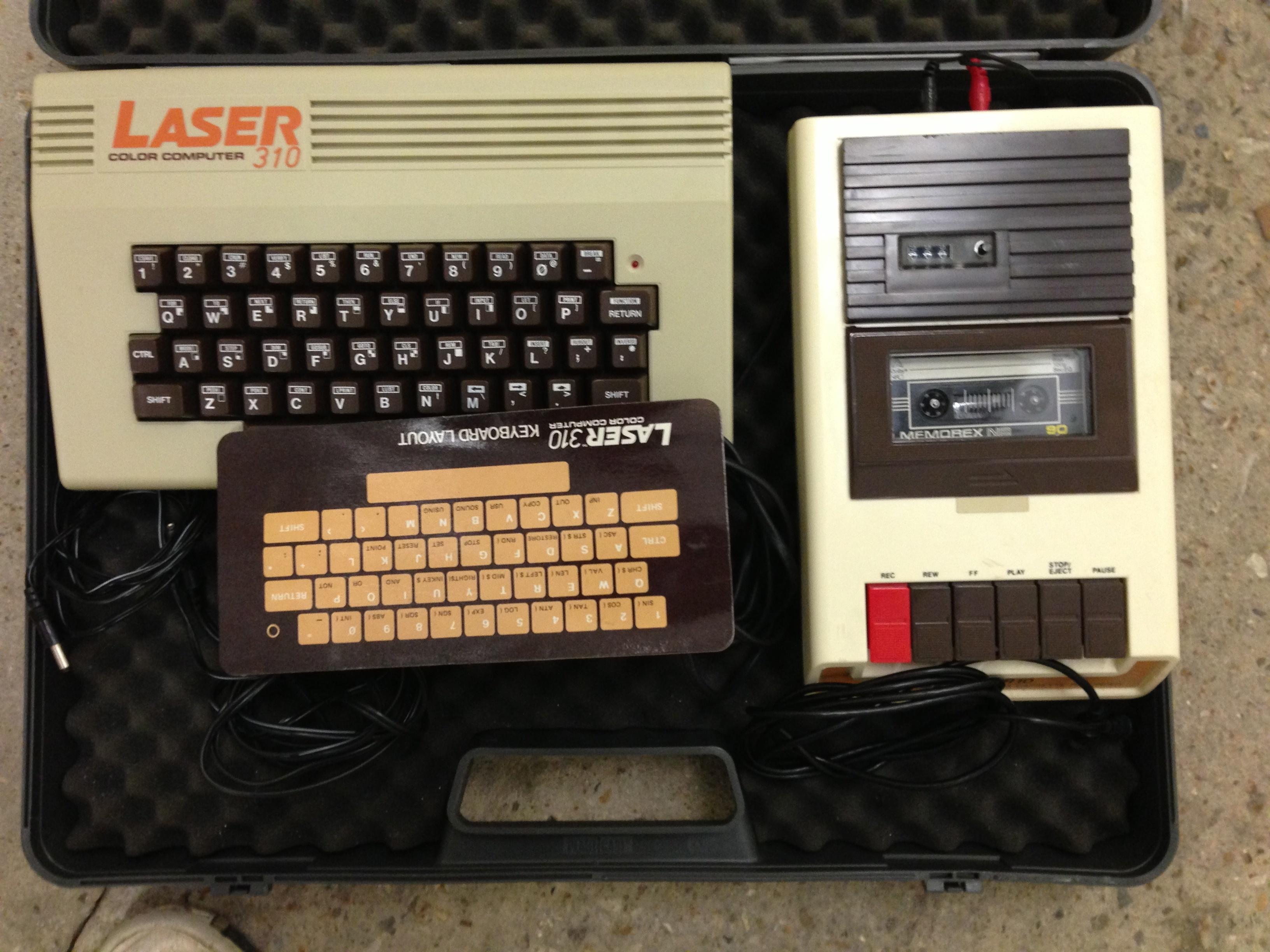 VTech Laser 310 Color Computer and cassette deck. This is an improved version of the VTech Laser 200 and was also sold as the Dick Smith VZ 300.